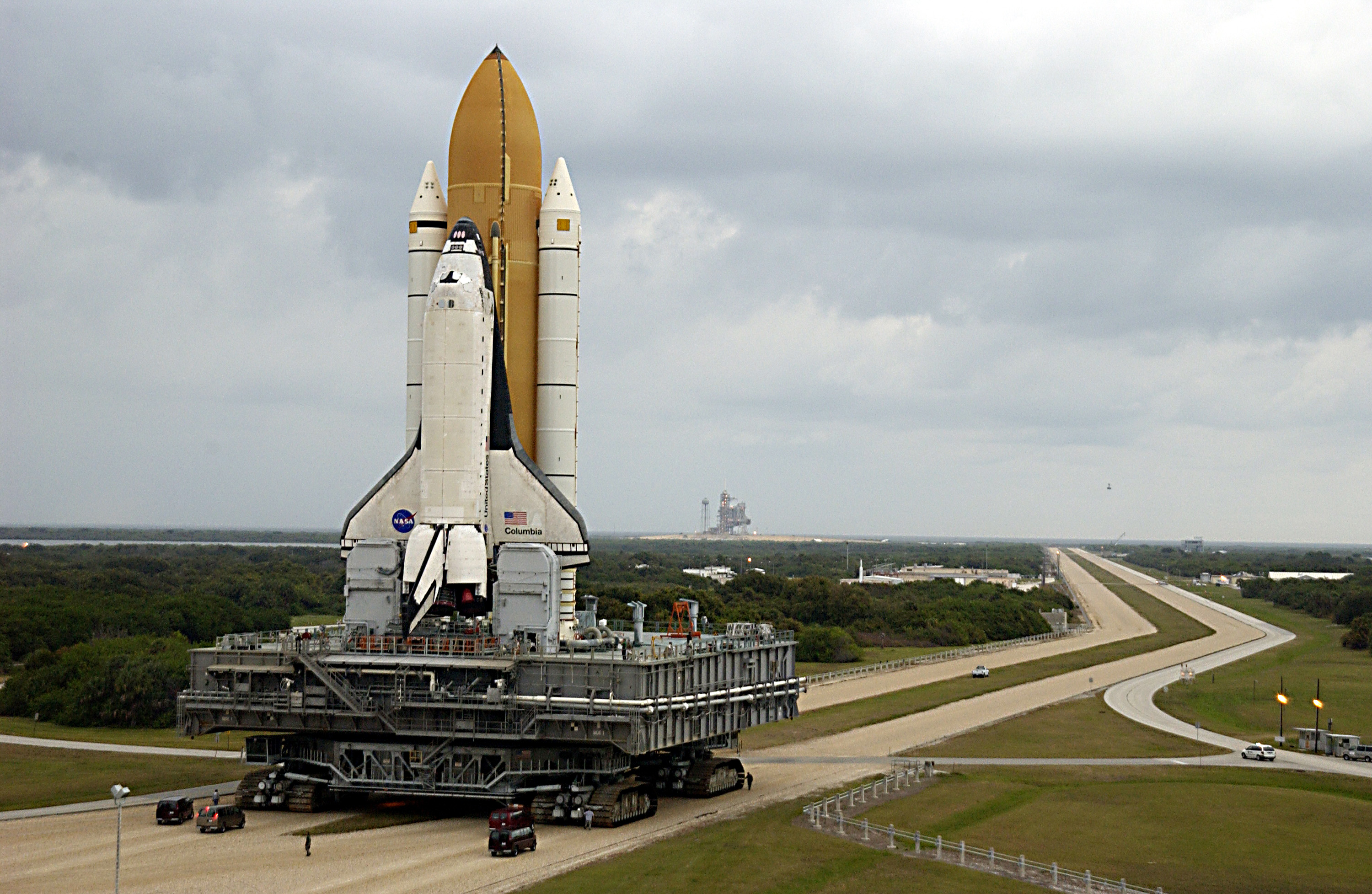 Space Shuttle Columbia rolls towards Launch Pad 39A, sitting atop the Mobile Launcher Platform, which in turn is carried by the crawler-transporter underneath